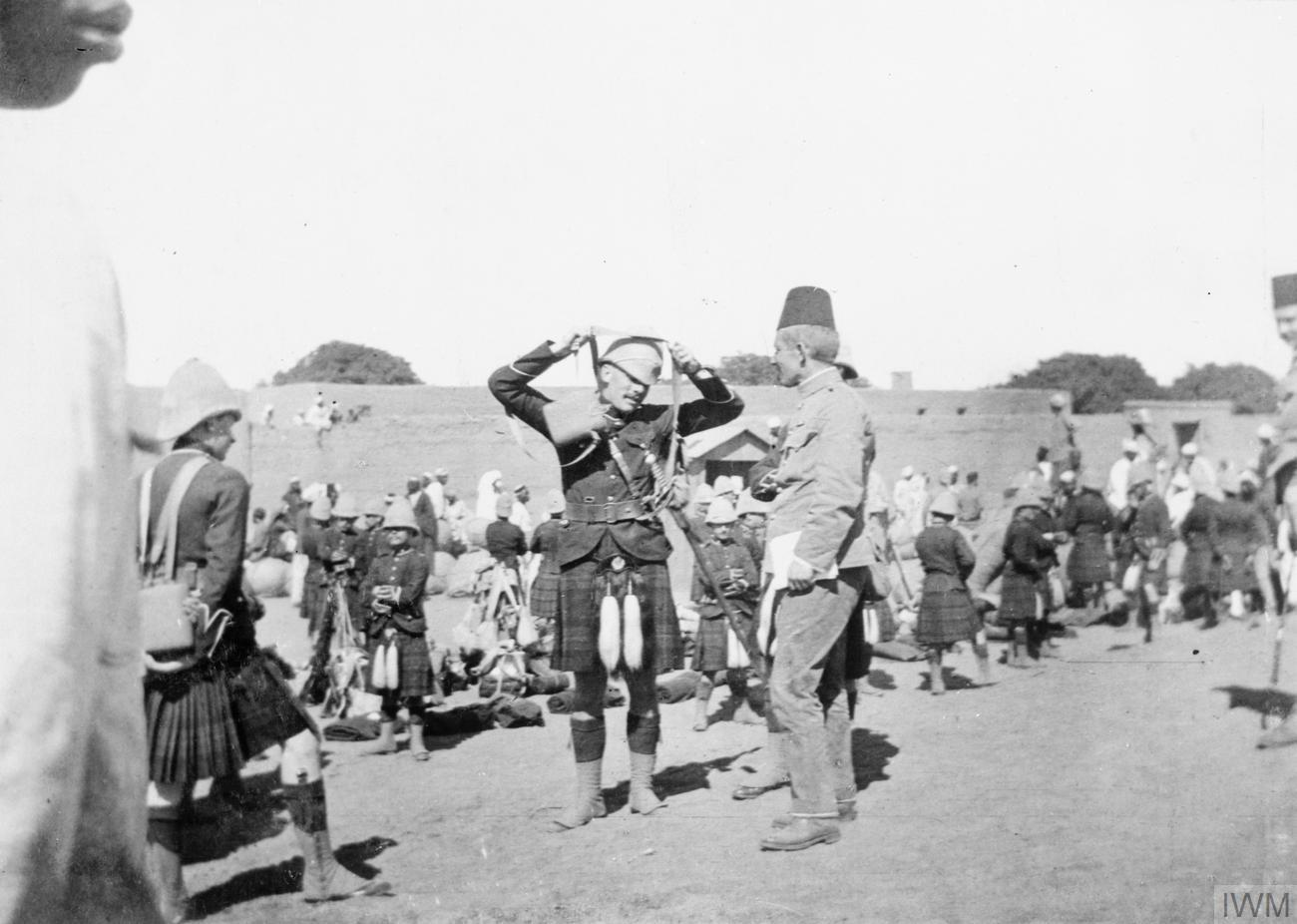 General Kitchener and the Anglo-egyptian Nile Campaign, 1898 The Queen's own Cameron Highlanders, wearing kilts and pith helmets, prepare to leave Darmali for Atbara in Sudan during the march of the British Brigade from Abu Dis to confront Mahdi forces at Atbara. The Special Army Order issued by the Horse Guards at the end of the campaign noted: “The march of the British Brigade to the Atbara, when in six days—for one of which it was halted—it covered 140 miles in a most trying climate, shows what British troops can do when called upon.”